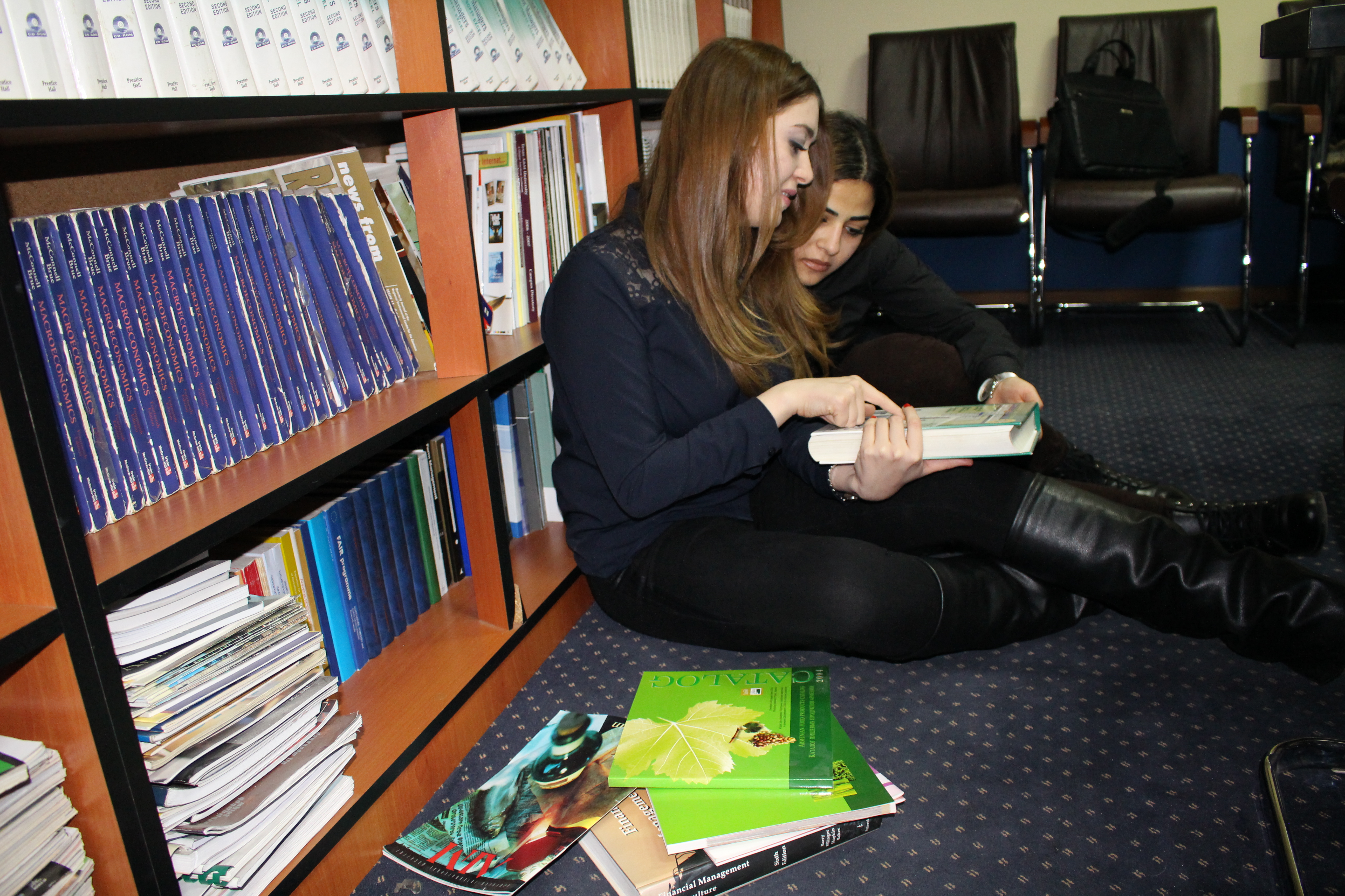 ATC students studying in the library.